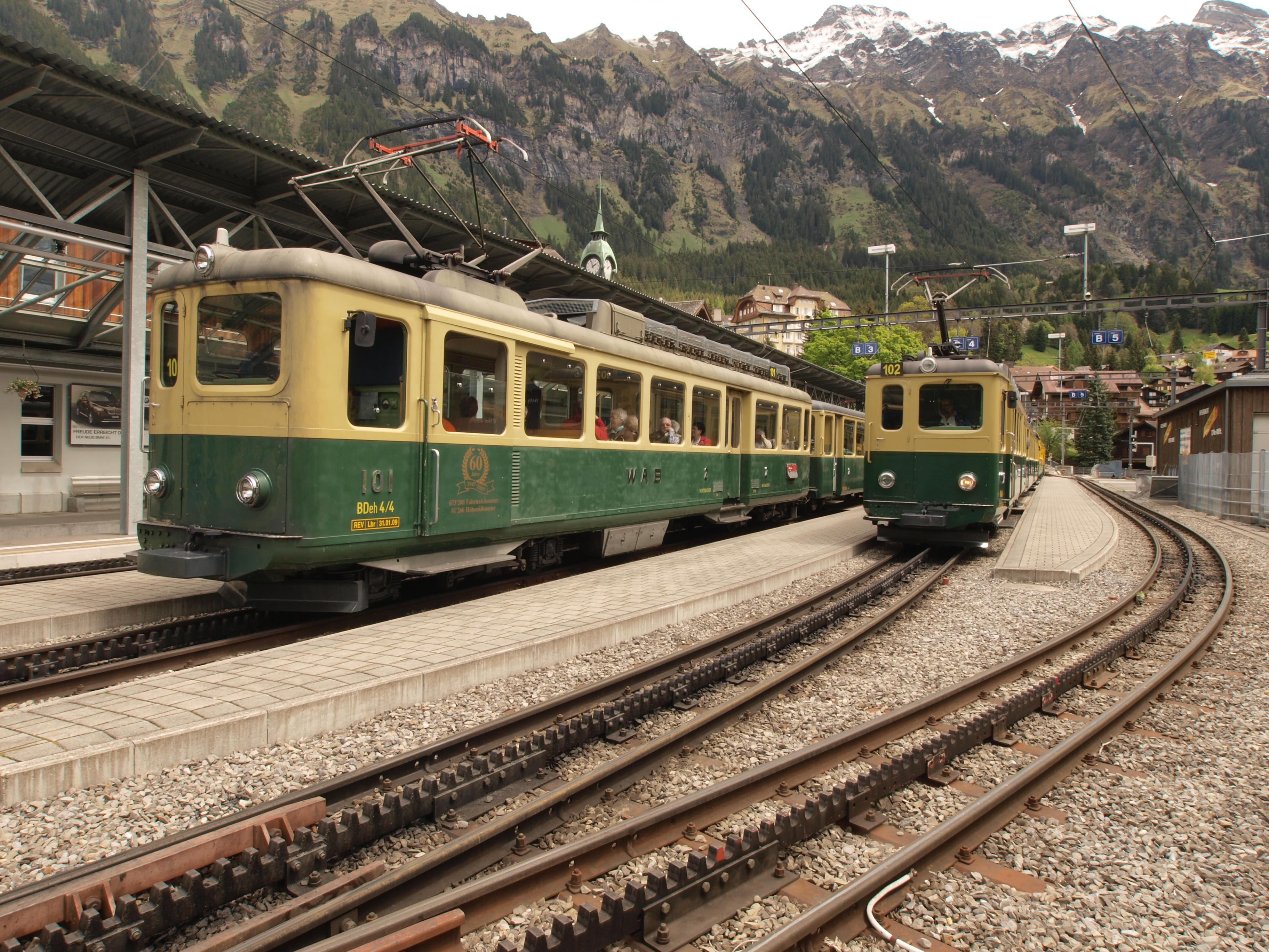 Photographed in Switserland.